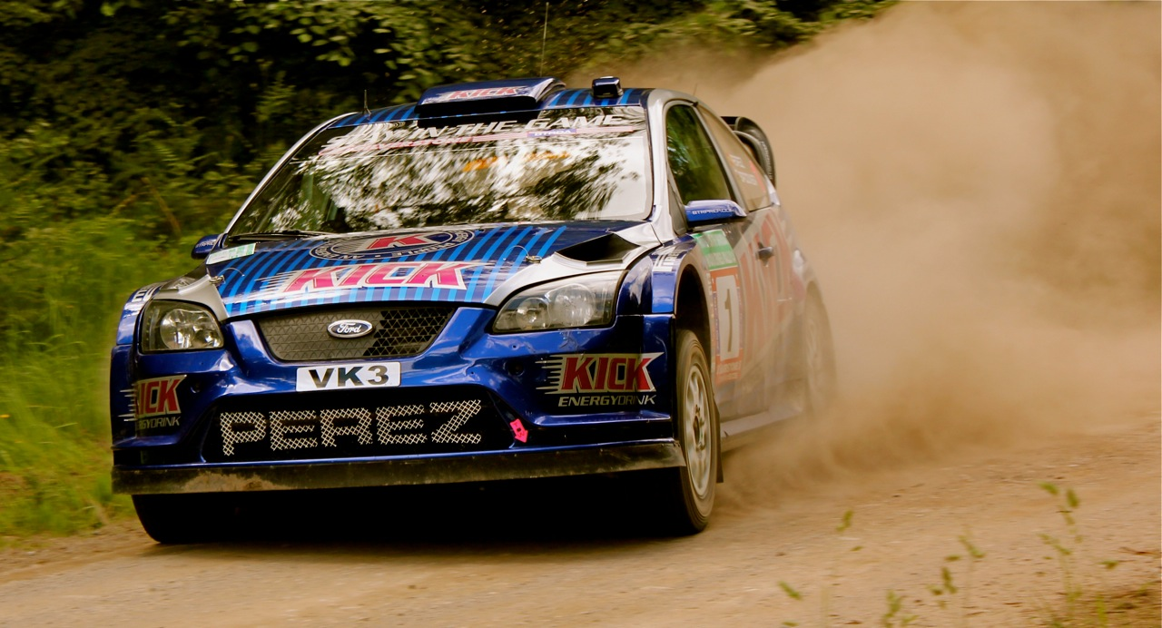 Image taken by